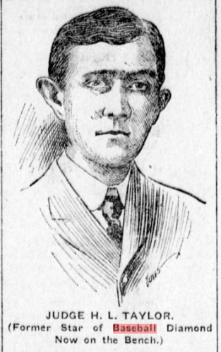 Judge Harry L Taylor, former baseball star